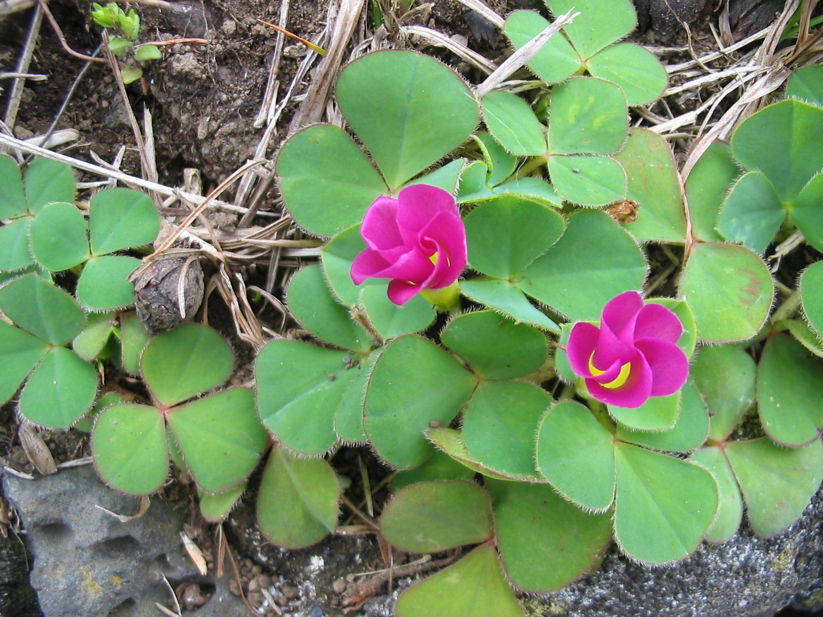 Purpurroter Sauerklee (Oxalis purpurea) - Habitus